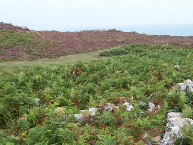 Stone Circle. One of several circular enclosures and hut circles on St Davids Head